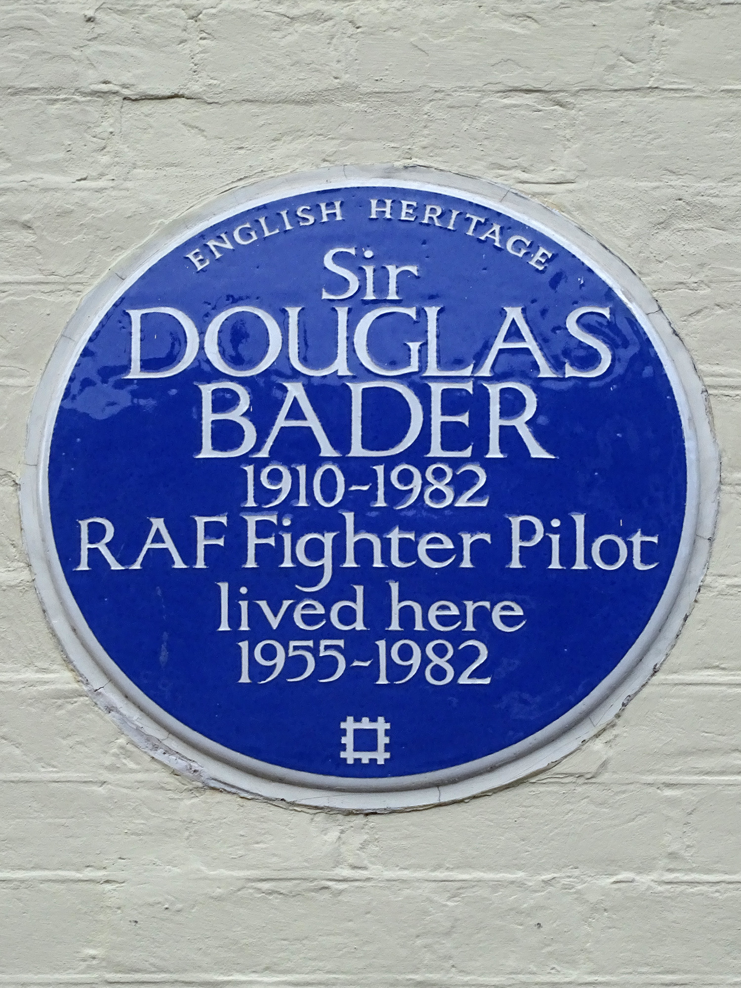 Blue plaque erected in 2009 by English Heritage at 5 Petersham Mews, Kensington, London SW7 5NR, Royal Borough of Kensington and Chelsea